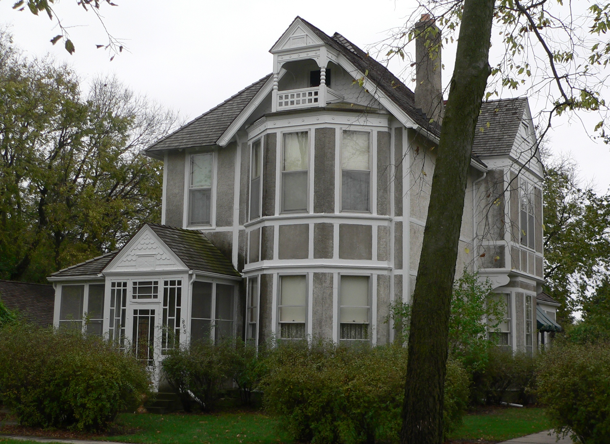 John Janecek House, located at 805 E. 8th Street in Schuyler, Nebraska; seen from the northwest.